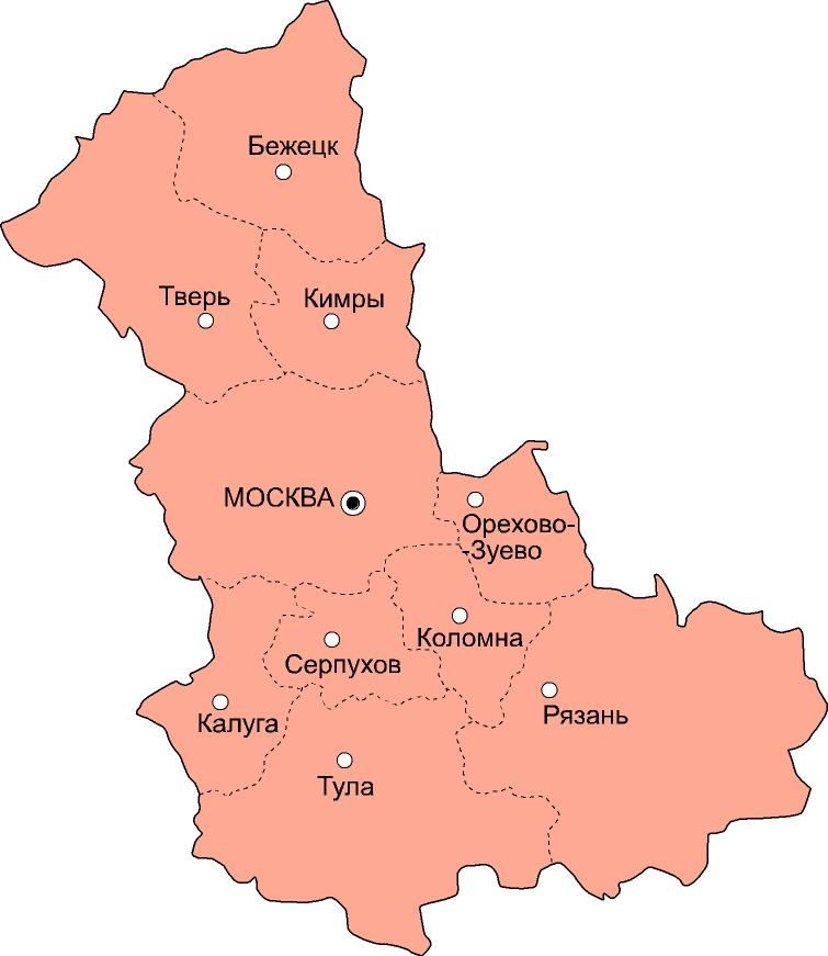 Map of Moscow region (1930)